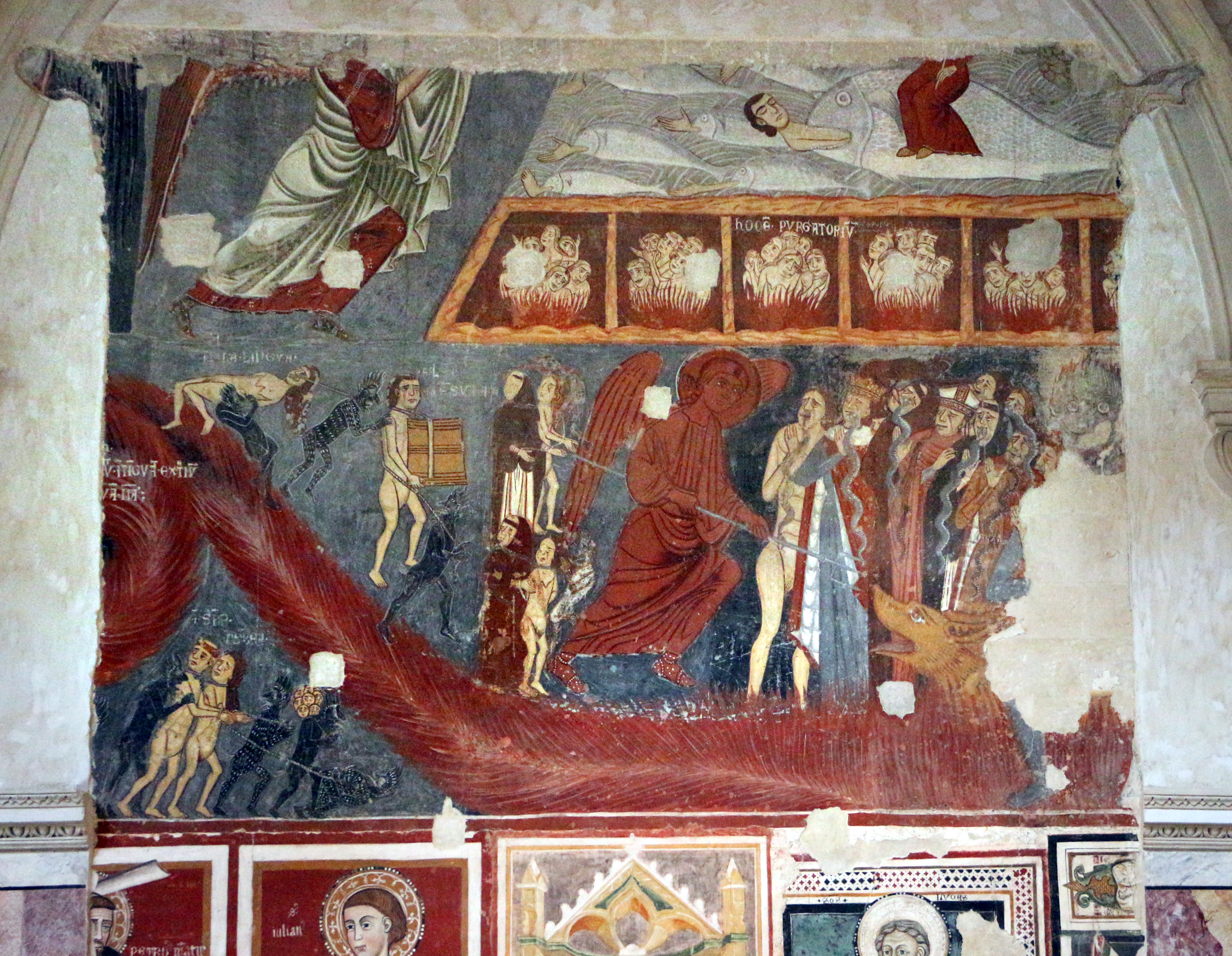 Cathedral (Matera)